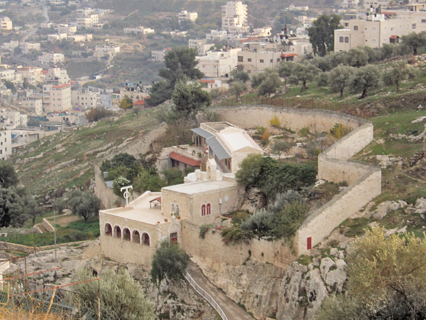 Akeldama